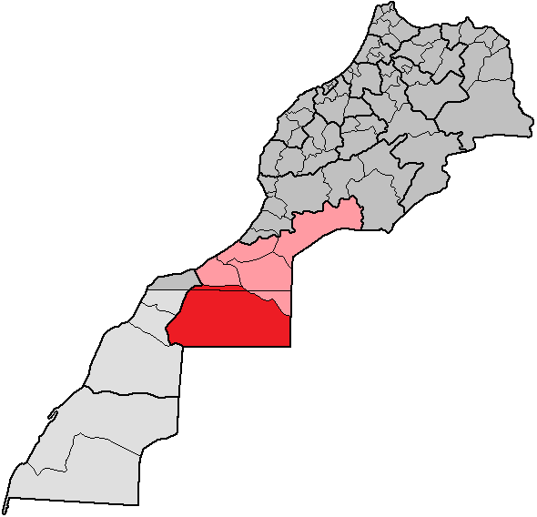 Location of the province es-Semara within the region Guelmim-Es Semara, Morocco. In total, Morocco has 16 regions, subdivided into 62 provinces and 13 prefectures.